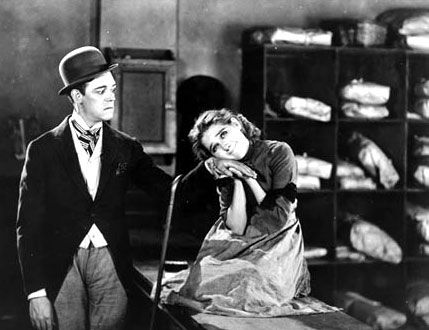 Mary Pickford in the film Suds (1920).